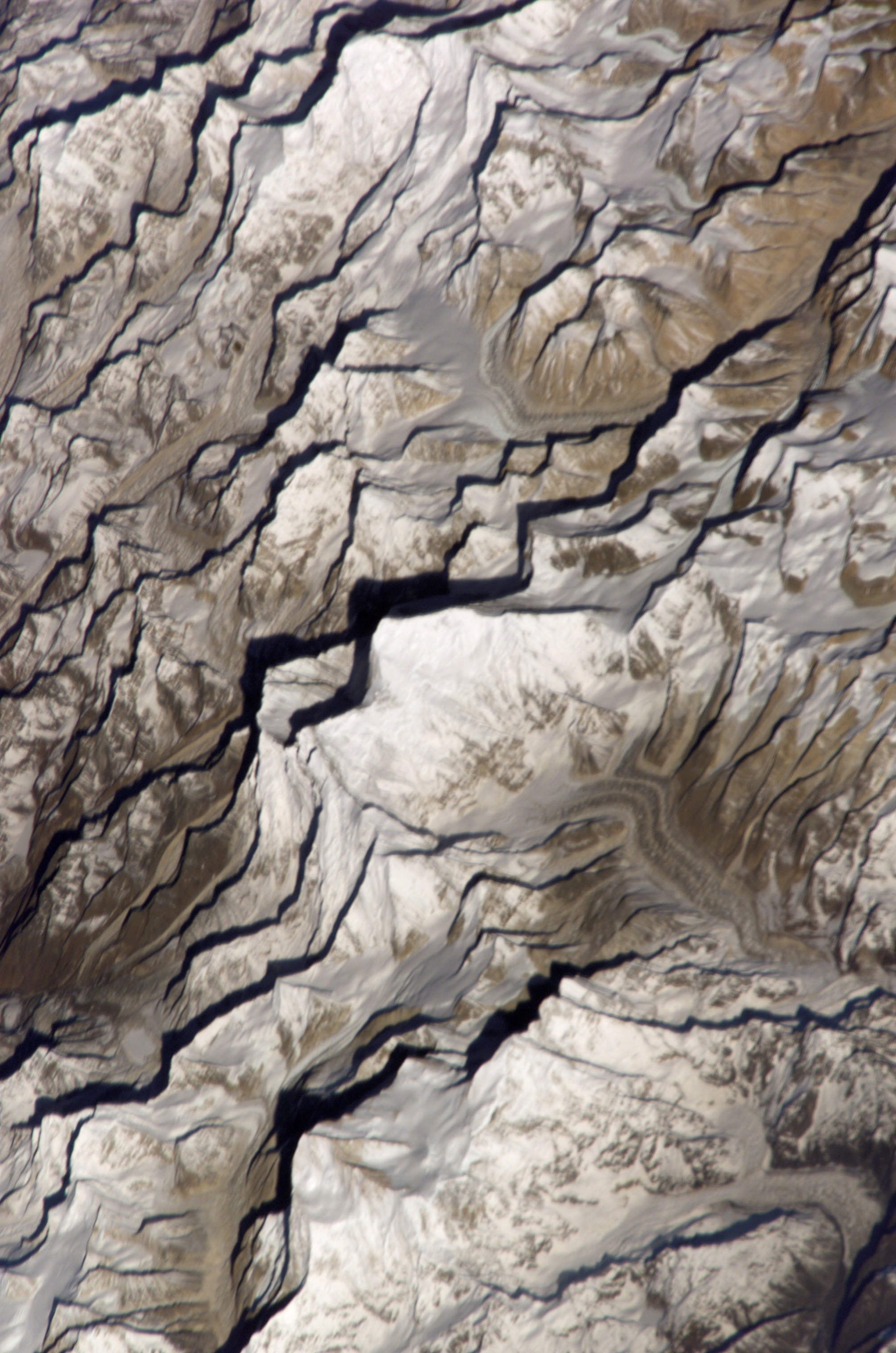 Mount Everest and surrounding mountains from space. Highest available resolution from NASA, uncropped and unrotated.